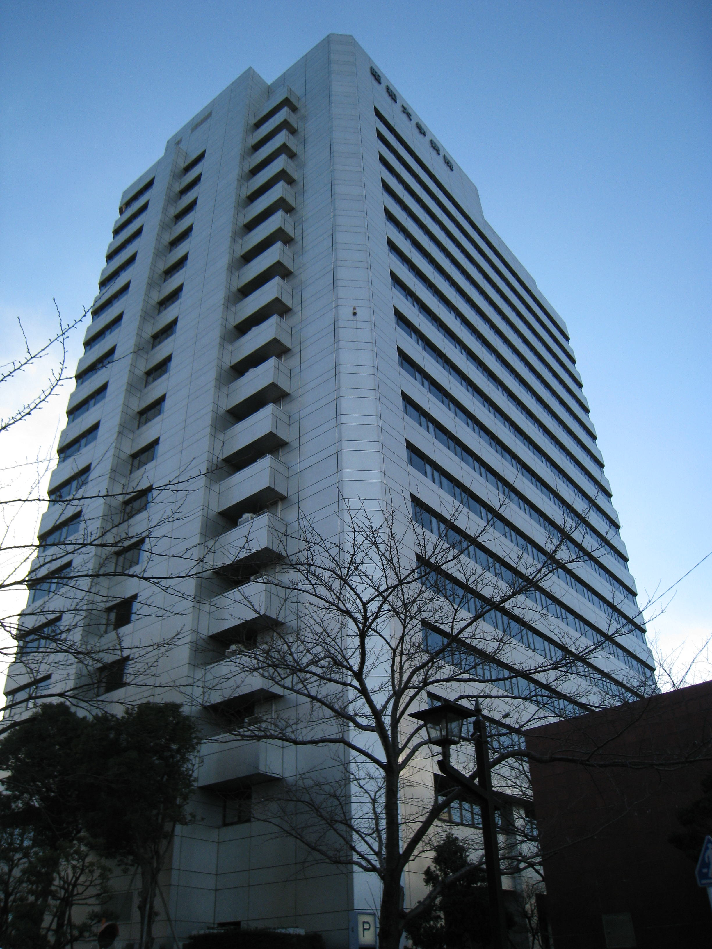 Showa University Hospital hospitalization Tower